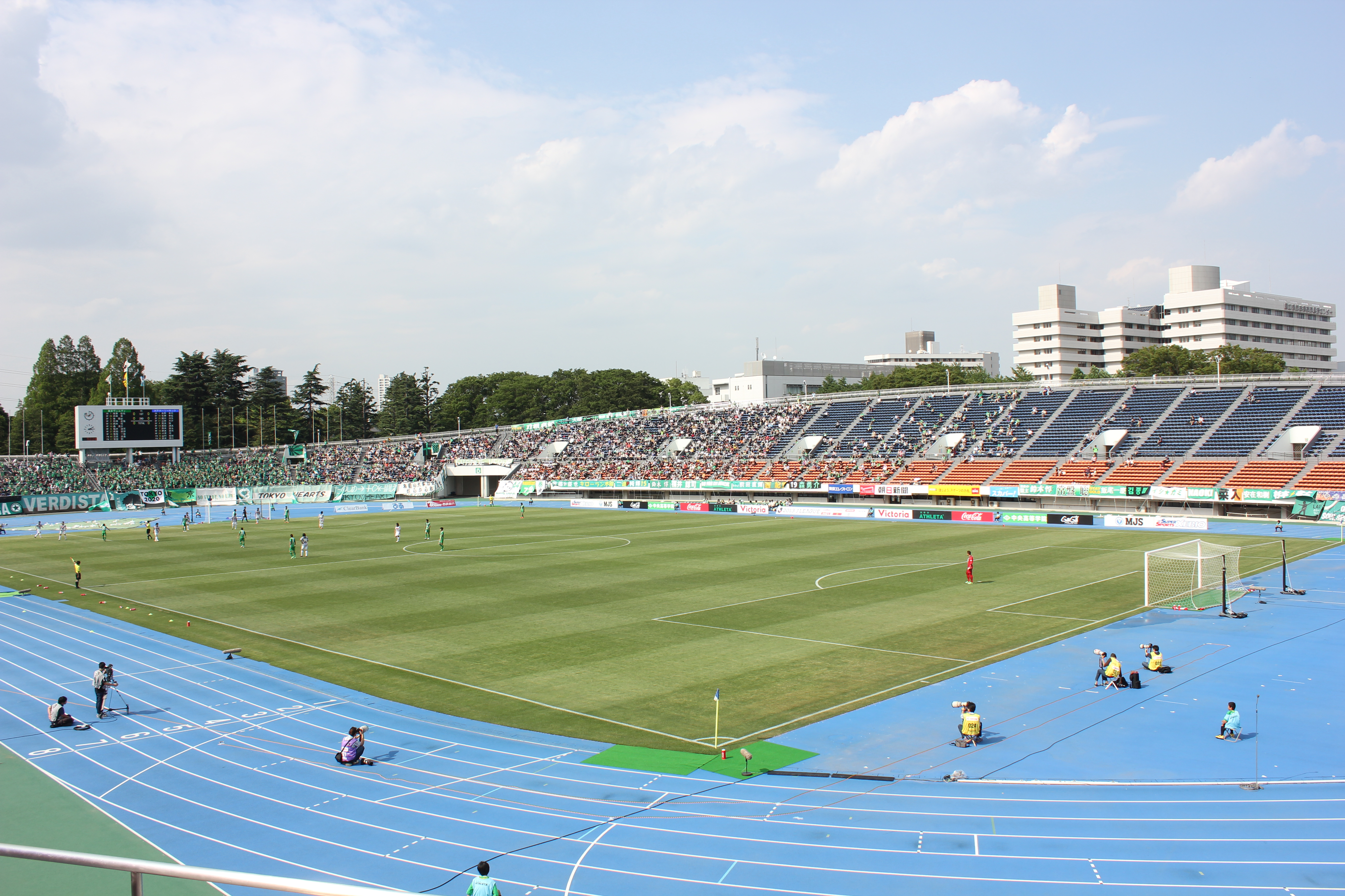 Komazawa Olympic Park General Sports Ground.